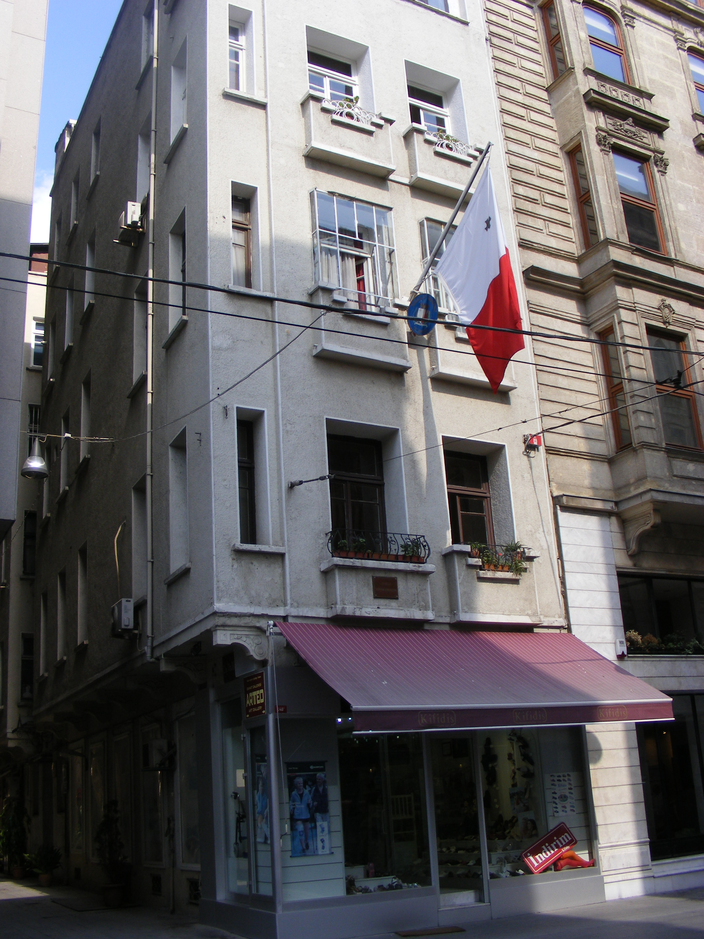 FORMER Honorary Consulate-General of Malta in İstiklal Avenue, Istanbul, Turkey.